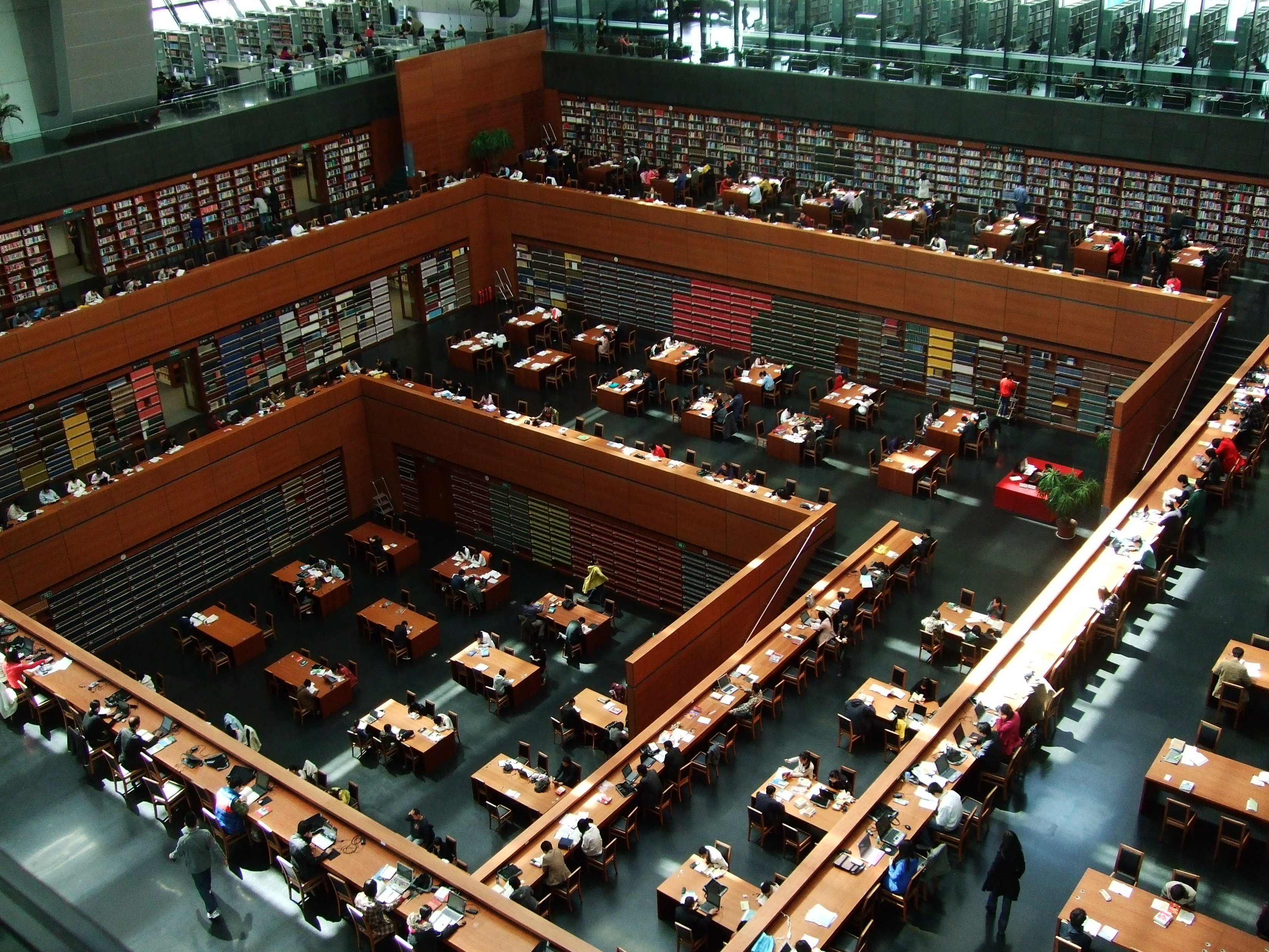 National Library of China